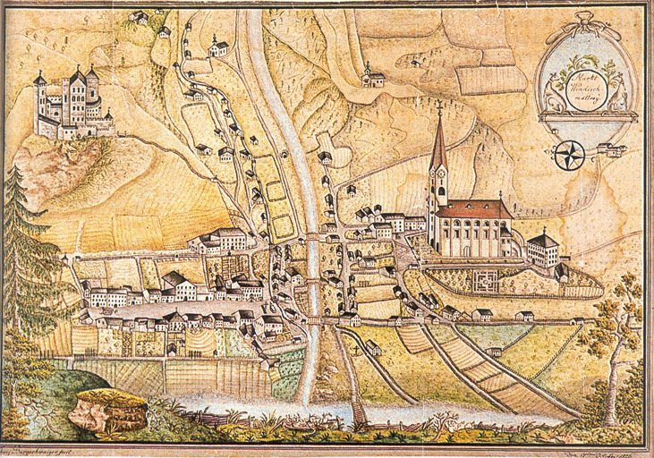 Matrei in Osttirol 1826, aquarelle of Franz Burgschwaiger